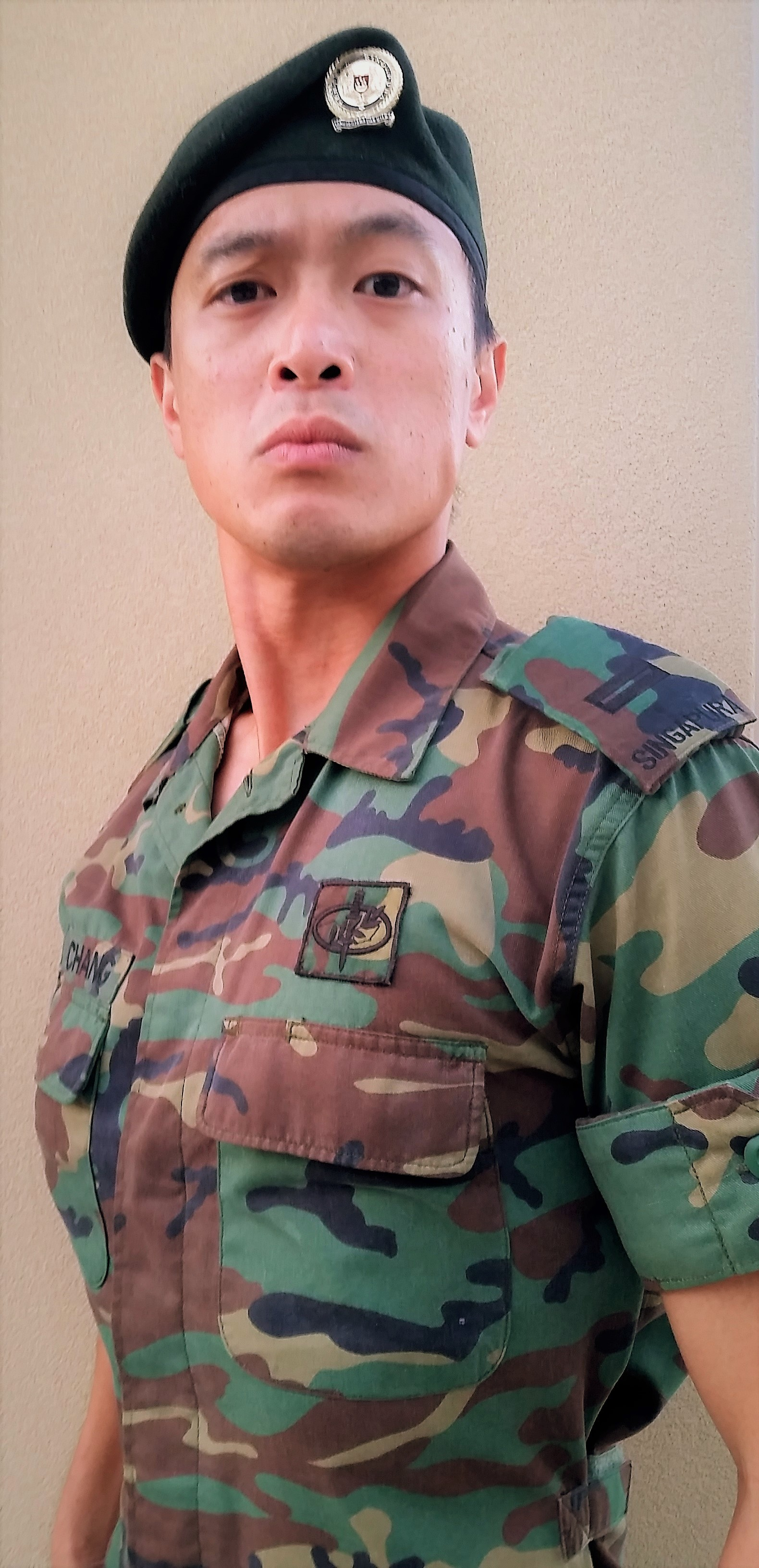 LTA Roy Chang, a Commissioned Officer in the Singaporean Armed Forces, Army division, donning the Green Infantry Beret. The badge on the left breast signifies the successful completion of the Jungle Confidence Course, attained during Officer Cadet training.